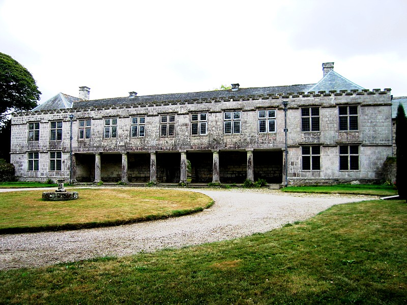 Godolphin House - Penwith - Cornwall - UK